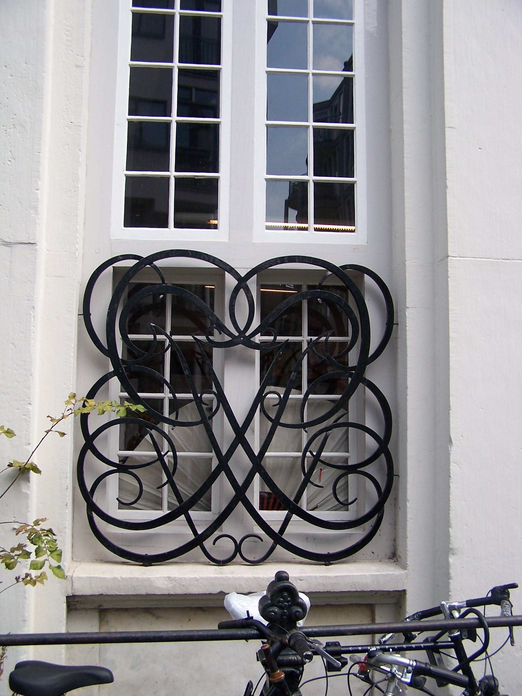 Sint Antoniebreestraat 69 (Library), zoom in to the window